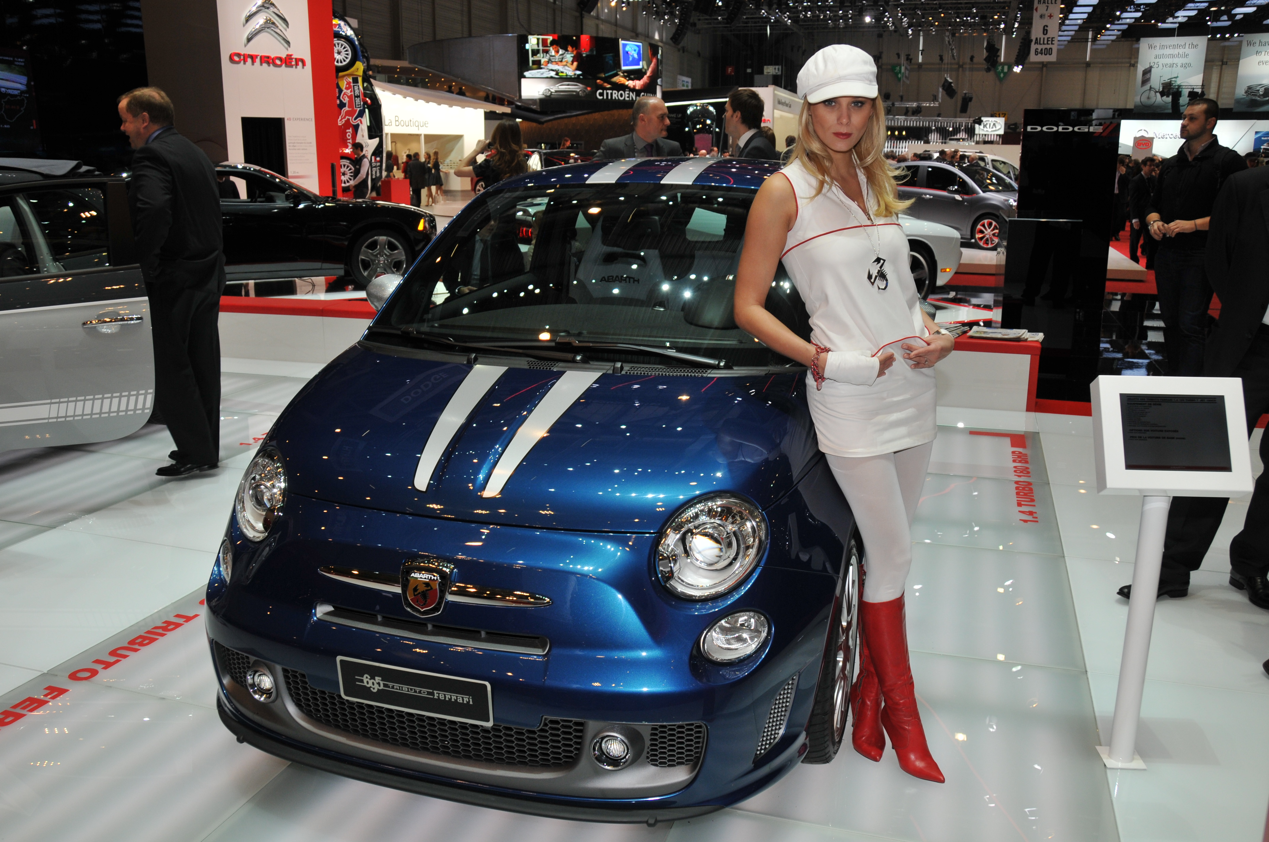 The Abarth 695 Tributo Ferrari at the 2011 Geneva Motor Show. For more info and images: This photograph was taken with a Nikon D300